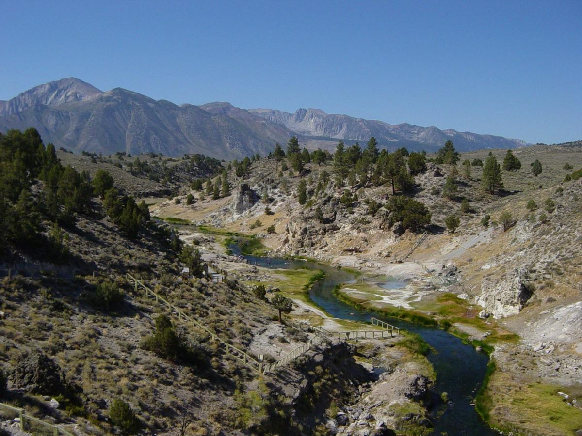 Hot Creek, in the Long Valley Caldera, Inyo National Forest, Eastern Sierra, Mono County, California.